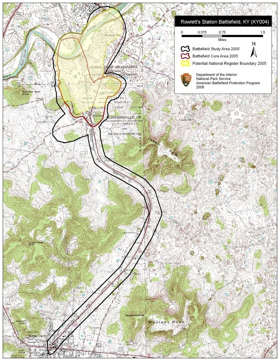 Map of battlefield core and study areas. The revised boundaries were expanded to the west beyond the Green River to reflect fighting at the L&N Railroad bridge.